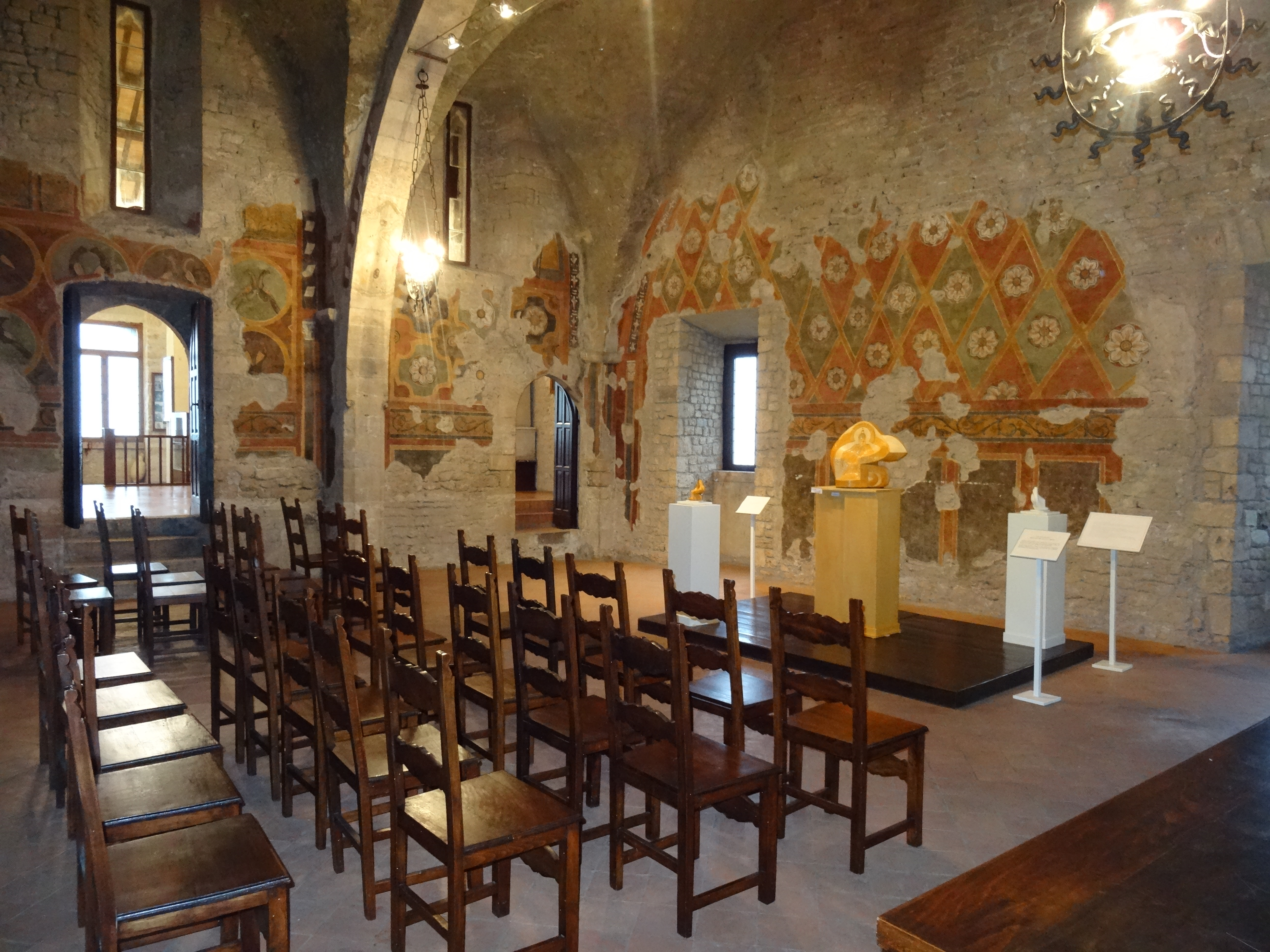 Sala dello schiaffo